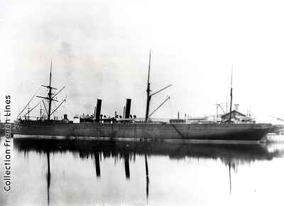 Black and white photograph of Ville du Havre